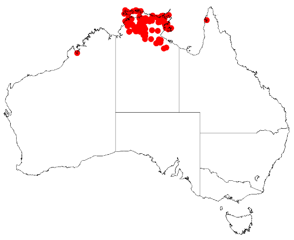 Acacia latescens Occurrence data from Australasia Virtual Herbarium downloaded from on 8 December 2018